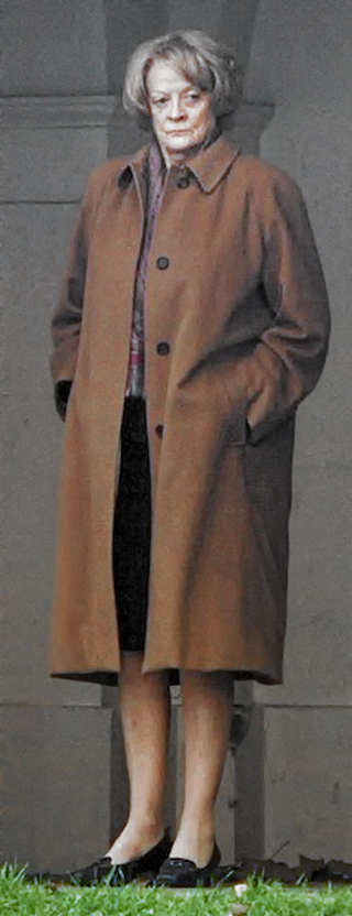 Dame Maggie Smith in Kensington Gardens filming 'Capturing Mary', 7 March 2007. Shot with a long lens from the nearby path in a break between filming. The weather was cold and she appeared to be taking shelter.